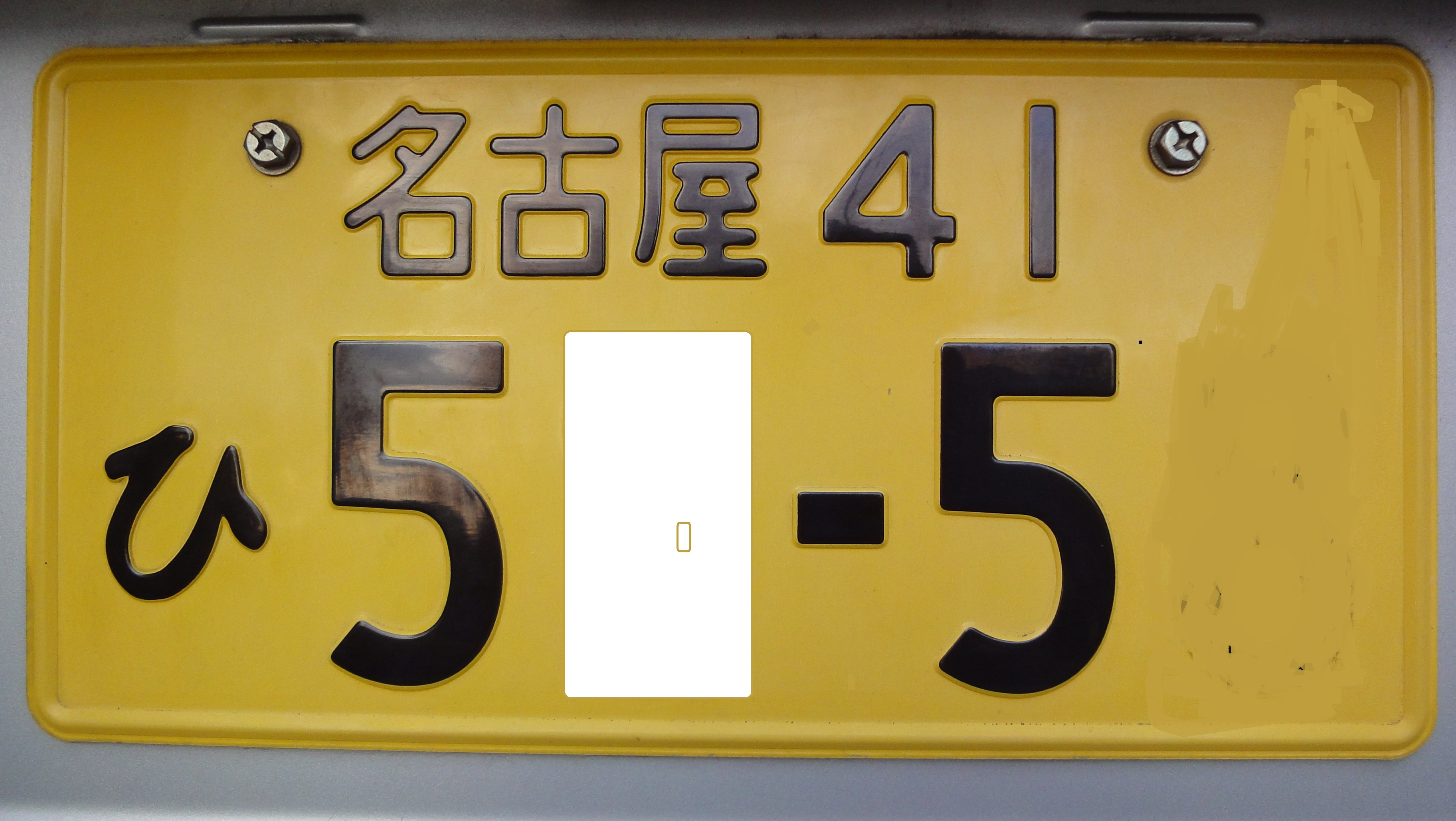 This is Japan's vehicle registration plate.